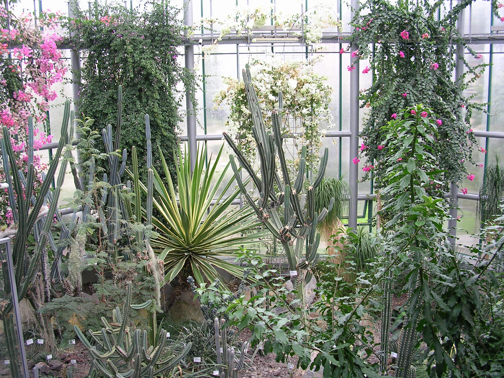 Liberec Botanical Garden. Cactaceae.